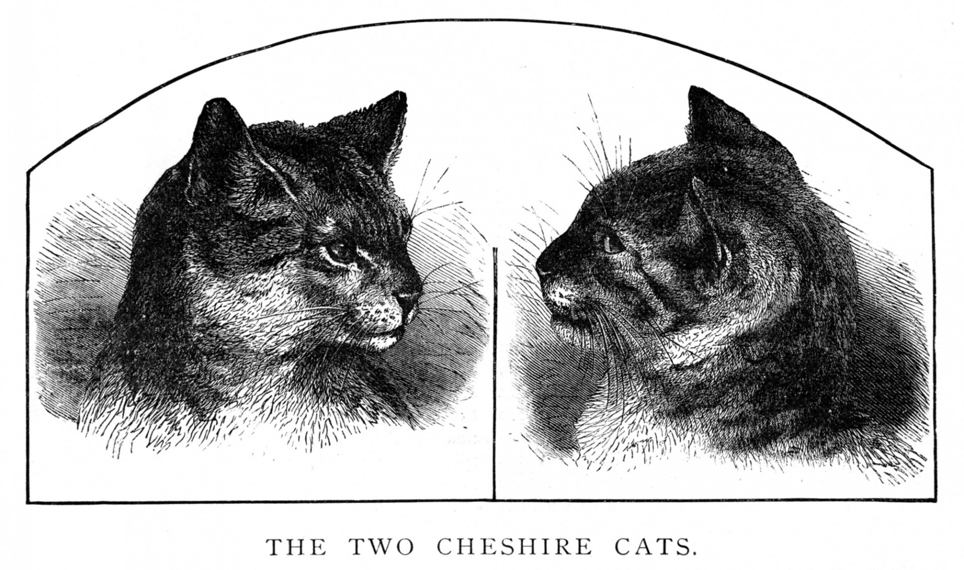 Black-and-white drawing of two cats (heads only) looking at each other.